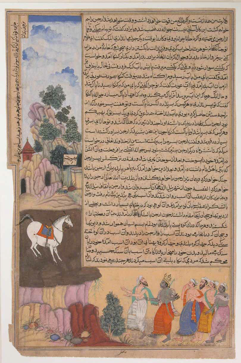 "The White Horse Got Stuck to a Rock in Mount Vindhyachal", Folio from a Razmnama